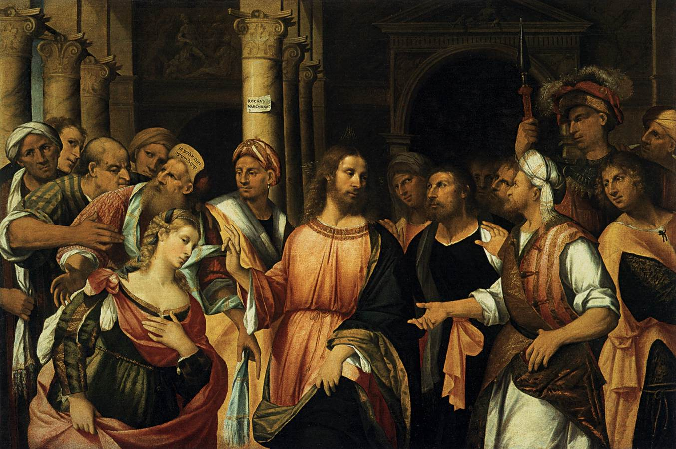 Christ and the Adulteress